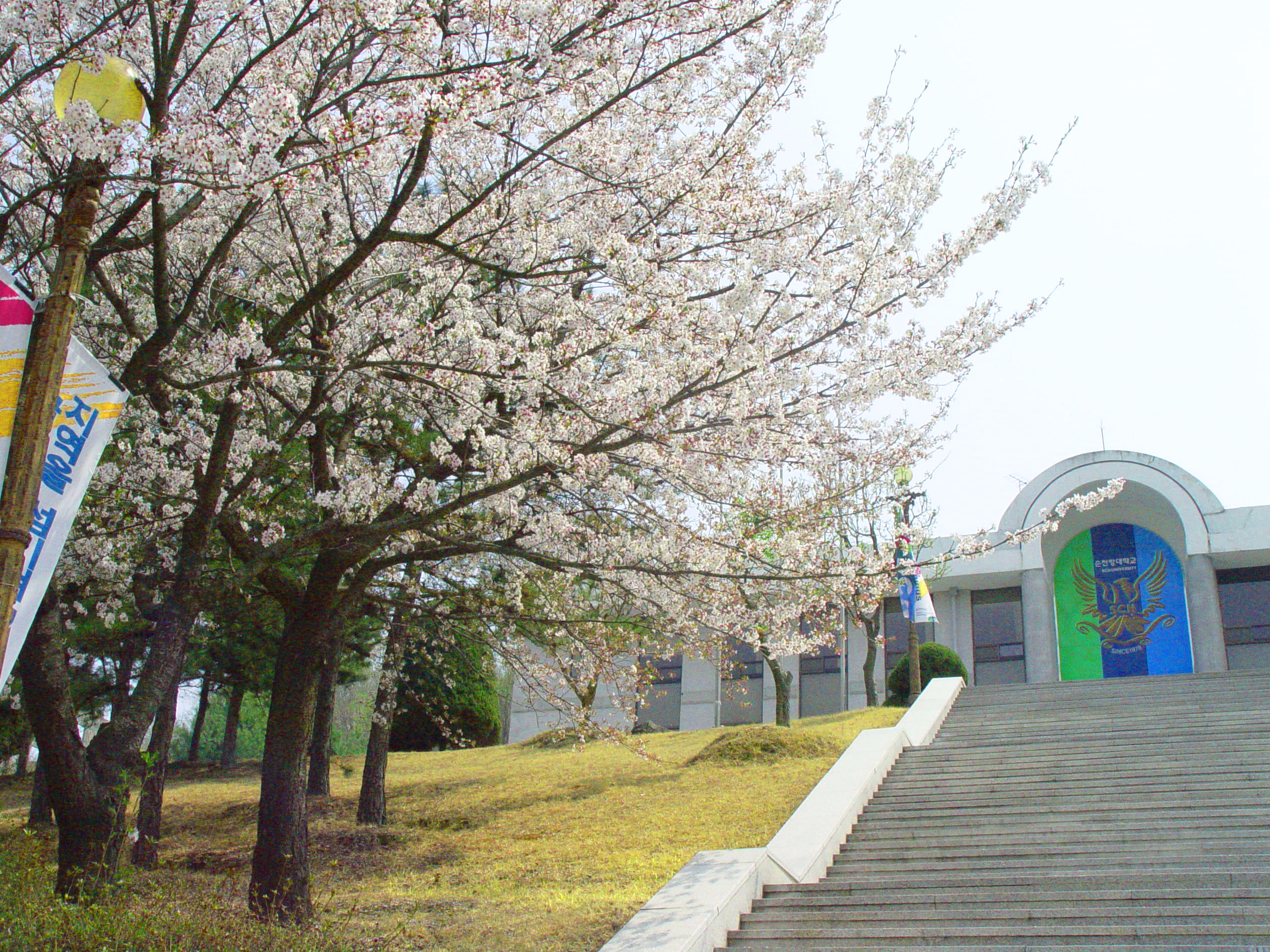 the flower in front of Soonchunhyang University